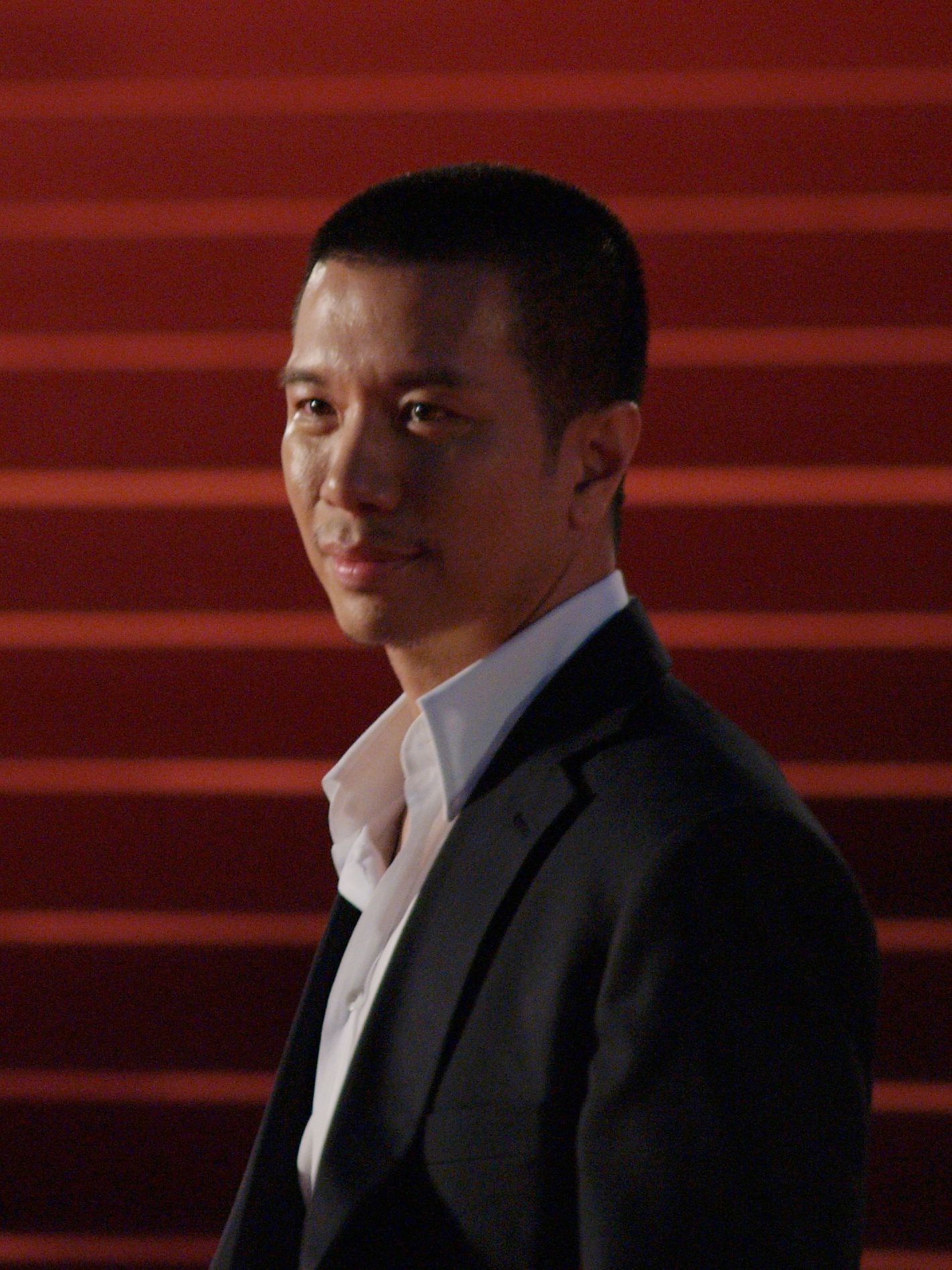 The actor Reggie Lee.